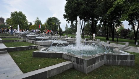 Tasmajdan`s fountain open on 06/08/11, with the monuments to Miodrag Pavic and Heydar Alijev